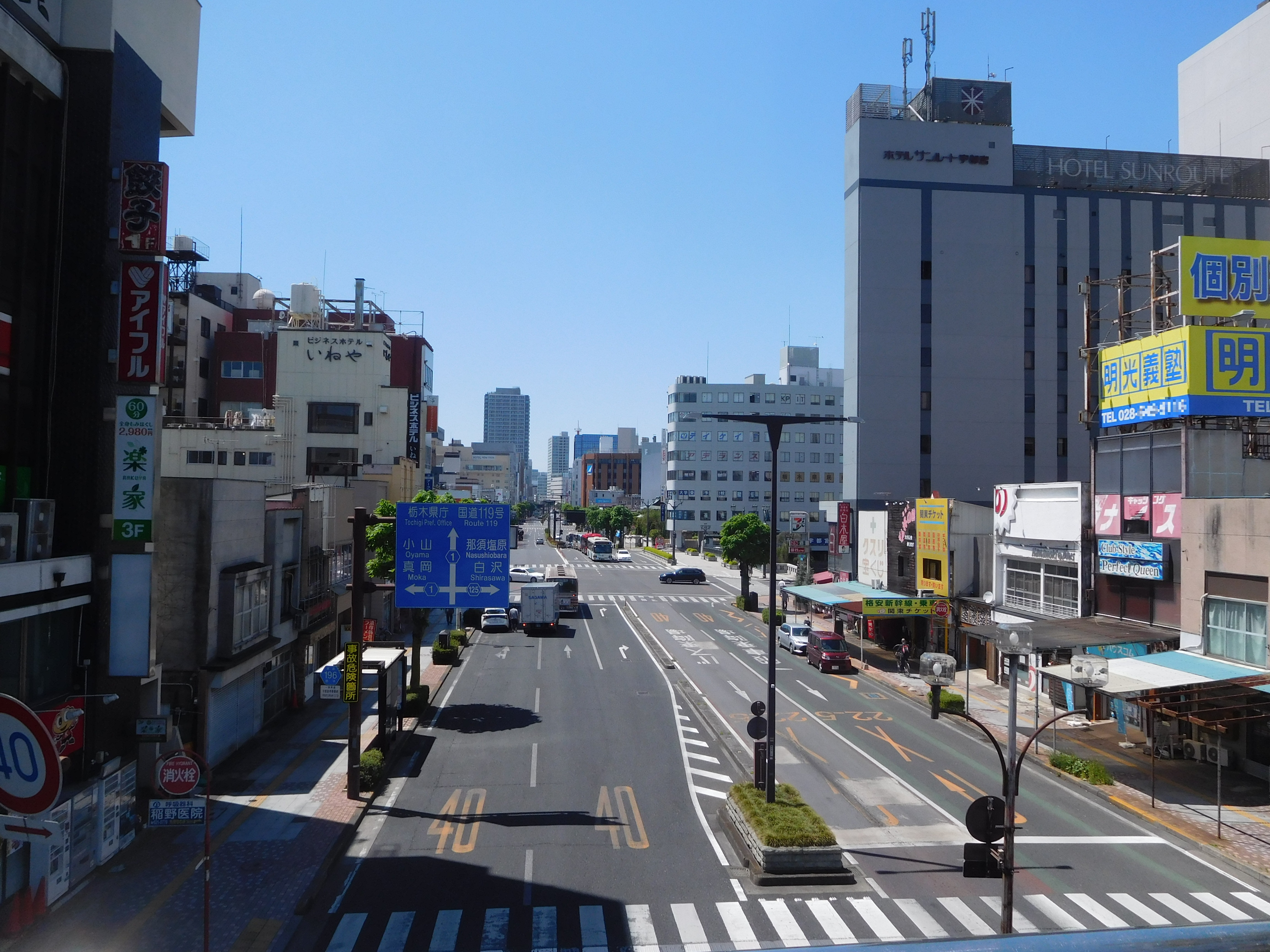 This is panorama of Tochigi prefectural road No.196 Utsunomiya station line in Utsunomiya, Tochigi, Japan.